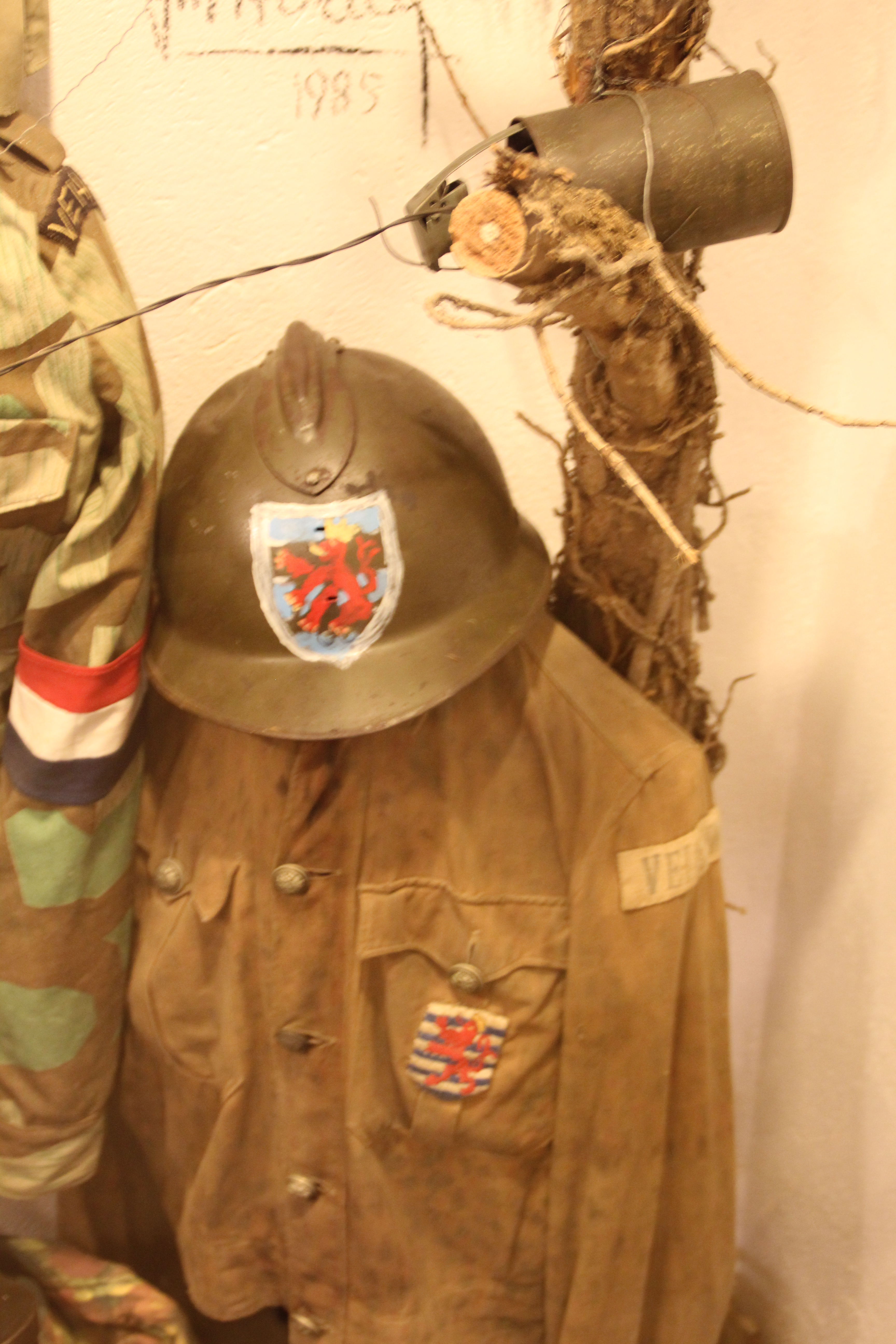 Improvised military uniforms of the Luxembourgish resistance (circa 1944-45) in the collection of the National Museum of Military History.